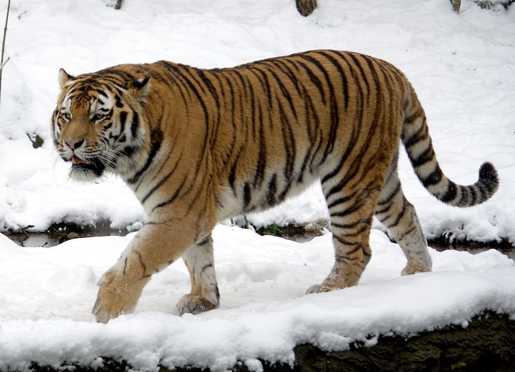 Male Panthera tigris altaica, Leipzig Zoo / Tomak (*27. Mai 2004 in Leipzig)